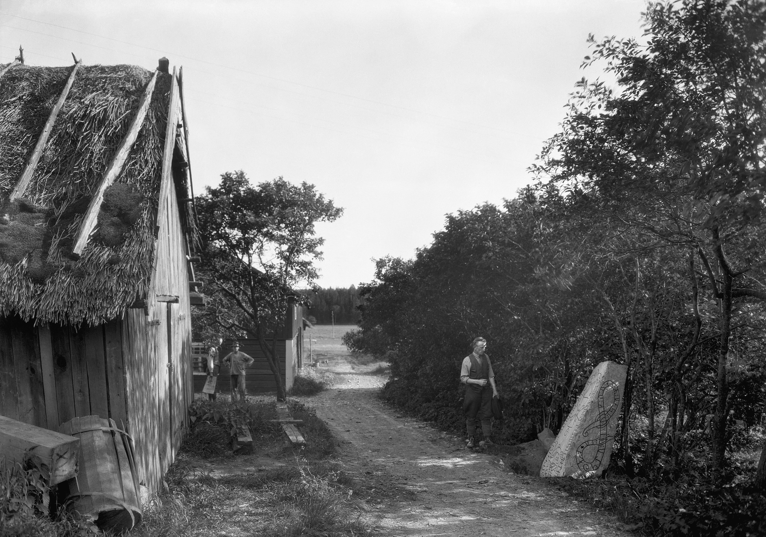 Rune stone (U 43) at a farmstead in Törnby. The inscription says: "Ofeg and Sigmar and Fröbjörn they raised (the stone) in memory of Jörund, their father, Gunna's husbandman. Ärnfast cut these runes". Runsten (U 43) vid en gård i Törnby. Ristningen säger: "Ofeg och Sigmar och Fröbjörn de reste (stenen) efter Jörund, sin fader, Gunnas man. Ärnfast högg dessa runor". Parish (socken): Skå Province (landskap): Uppland Municipality (kommun): Ekerö County (län): Stockholm Photograph by: Harald Faith-Ell Date: 1934 Format: Film negative Persistent URL: Read more about the photo database (in english)